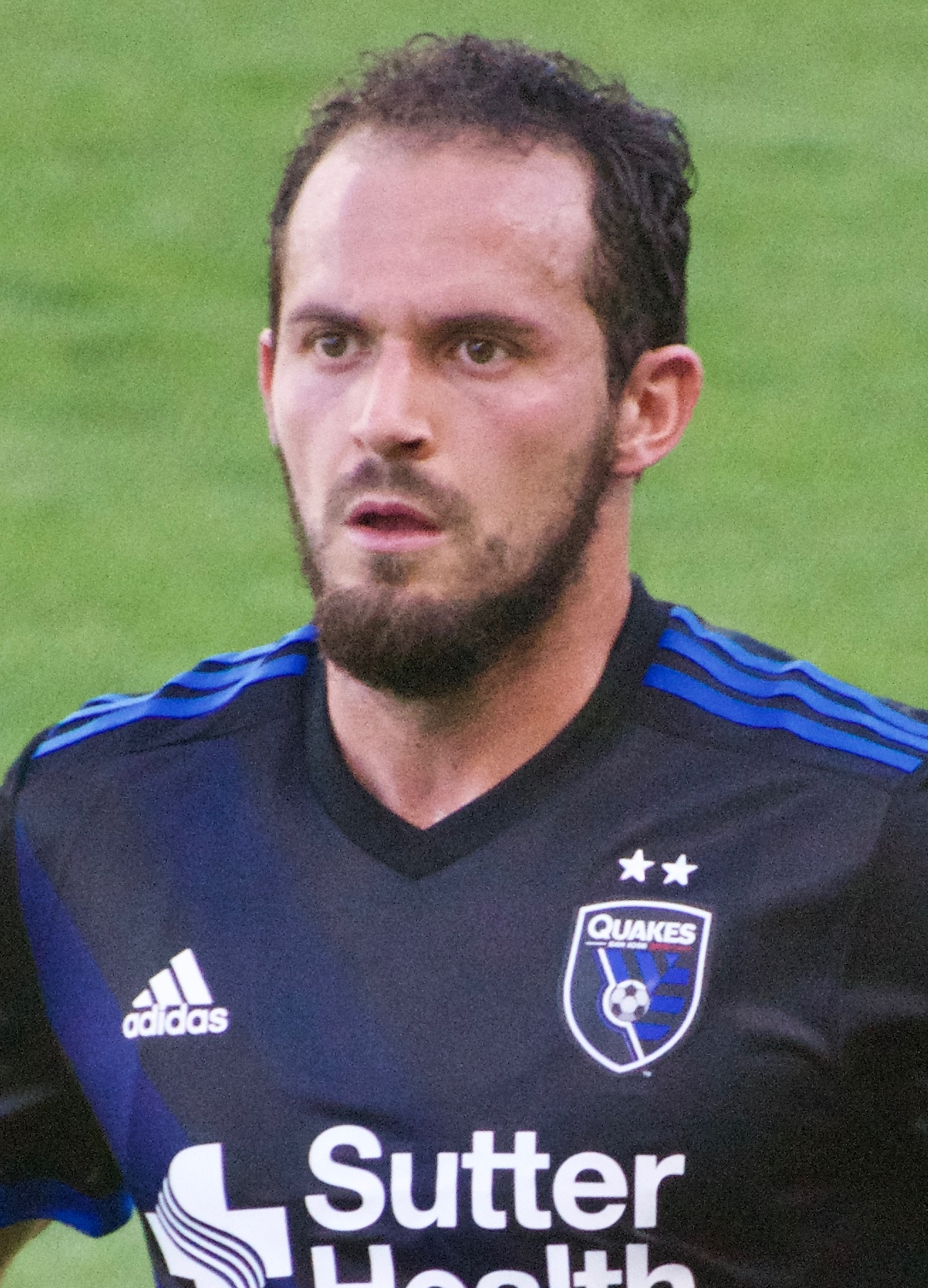 Marco Ureña playing for San Jose Earthquakes, Avaya Stadium 29 July 2017